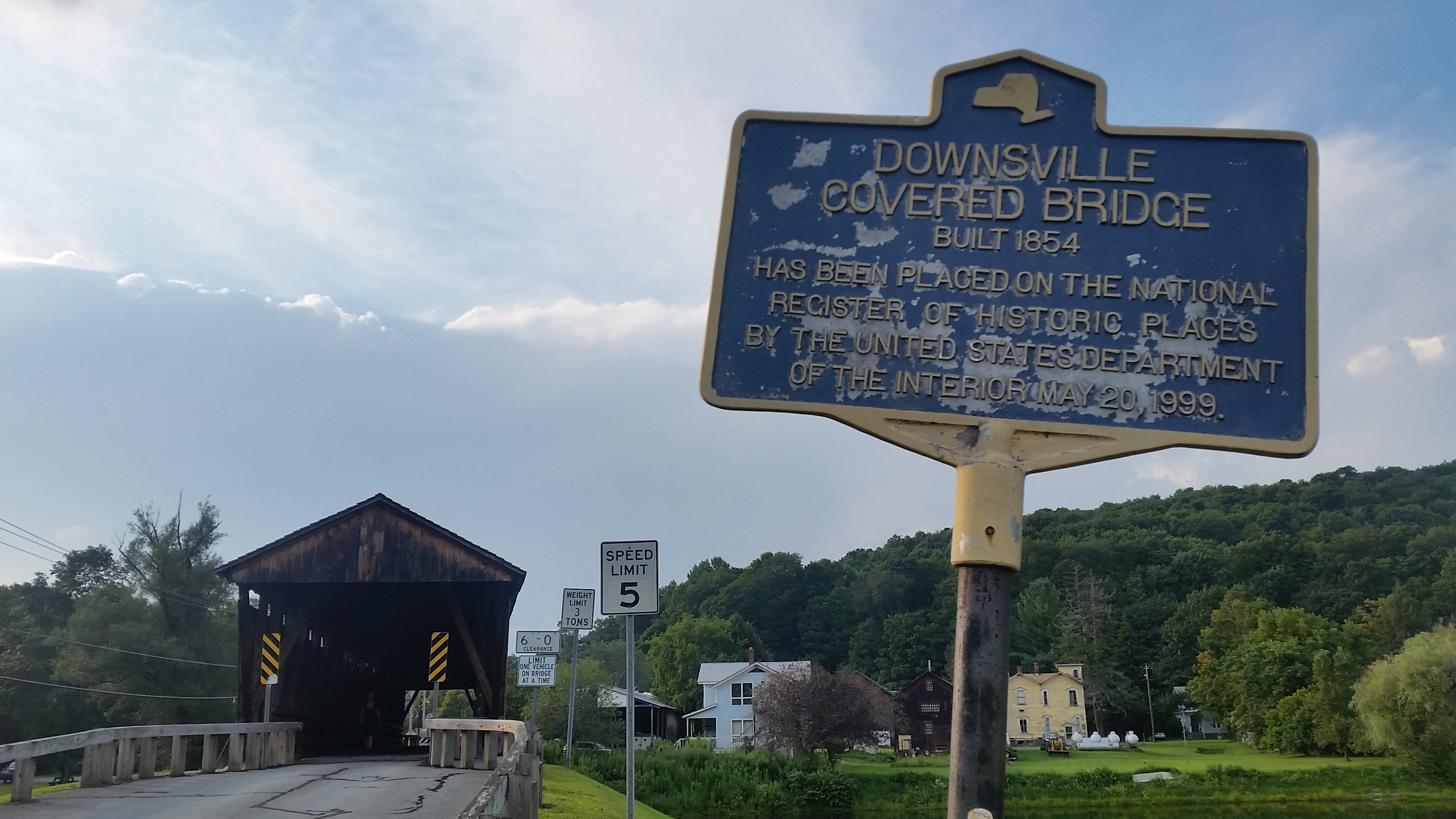 New York State historical marker for the Downsville Bridge, south side of the bridge